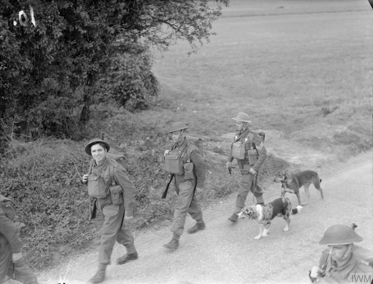 The British Army in the United Kingdom 1939-45 Infantry of the Queen's Regiment on the march with messenger dogs near Barham in Kent, 13 October 1941.